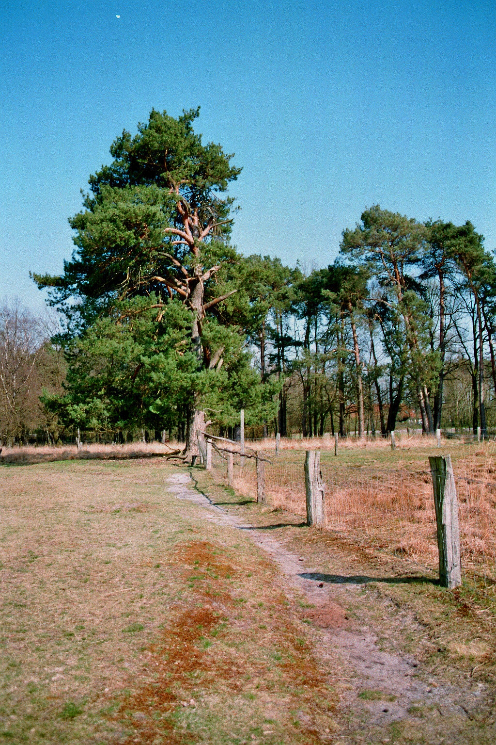 Visitor area of the Erdfallsee in the nature reserve „Heiliges Meer“ in Hopsten, Kreis Steinfurt, North Rhine-Westphalia, Germany.